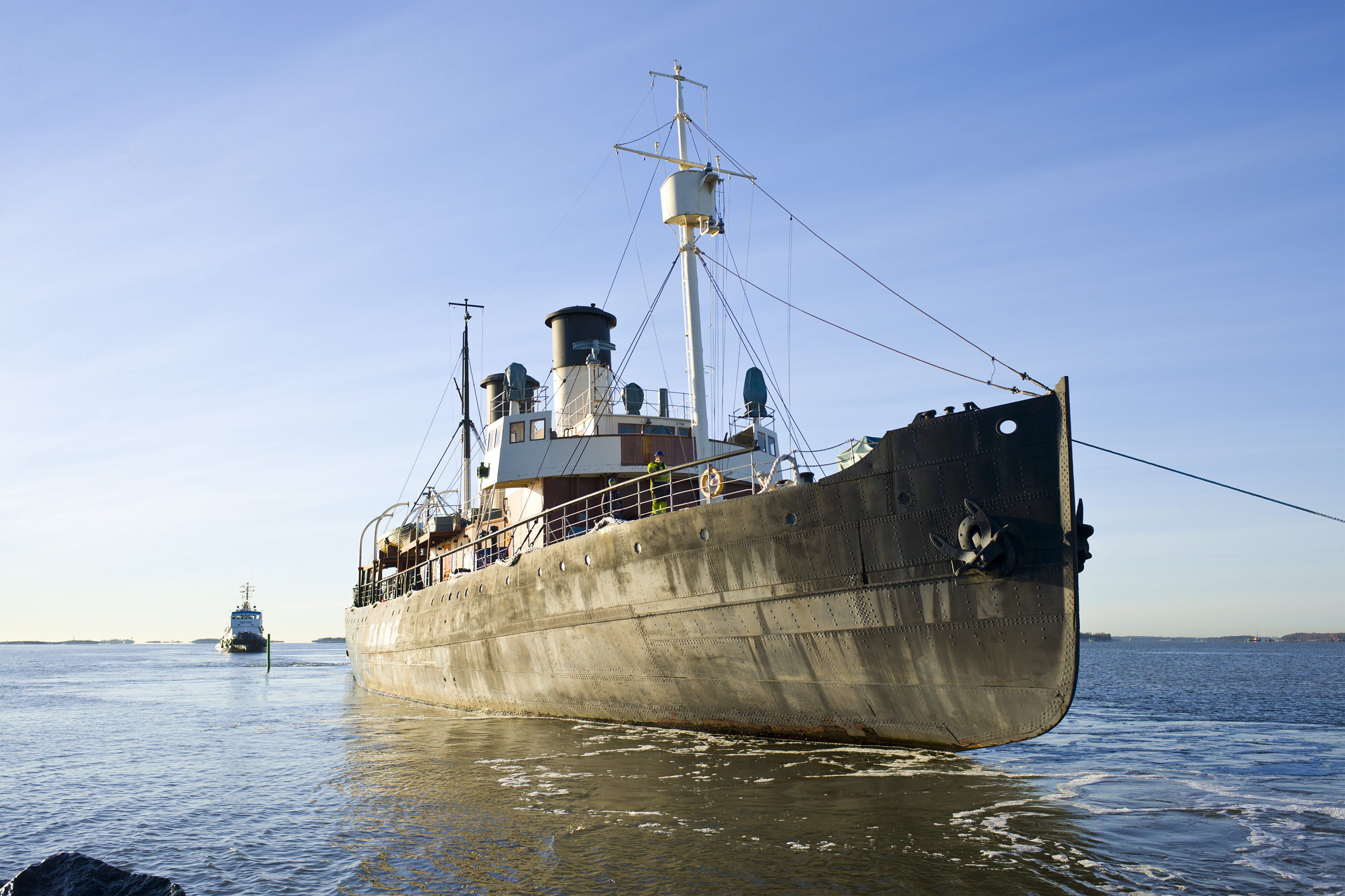 Tarmo, a Finnish steam-powered icebreaker built in 1907, being towed to Suomenlinna dry dock on a beautiful late autumn day. It has been 24 years since the previous hull inspection and renovations. Tarmo will return to Kotka next May.